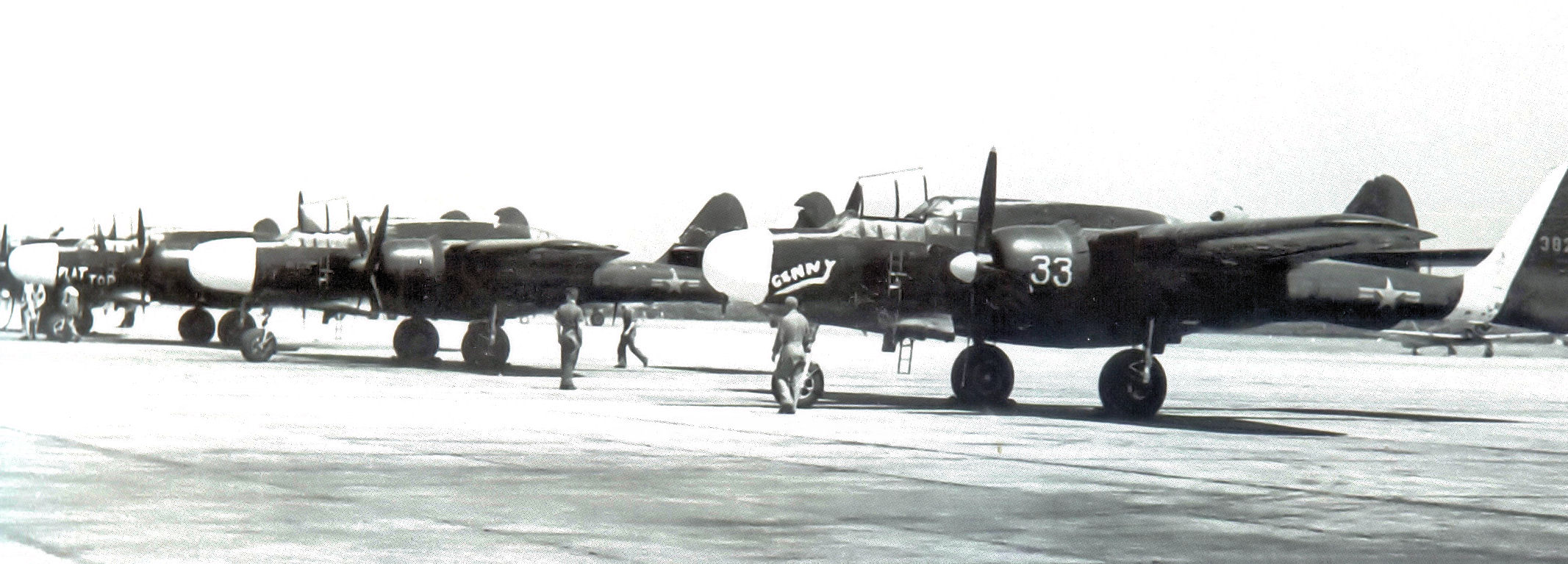 2d Fighter Squadron (All Weather) Northrop P-61B on ramp Mitchel AFB 1948 Shown areP-61B 43-8233 and P-61B 43-8290. Taken October 1948